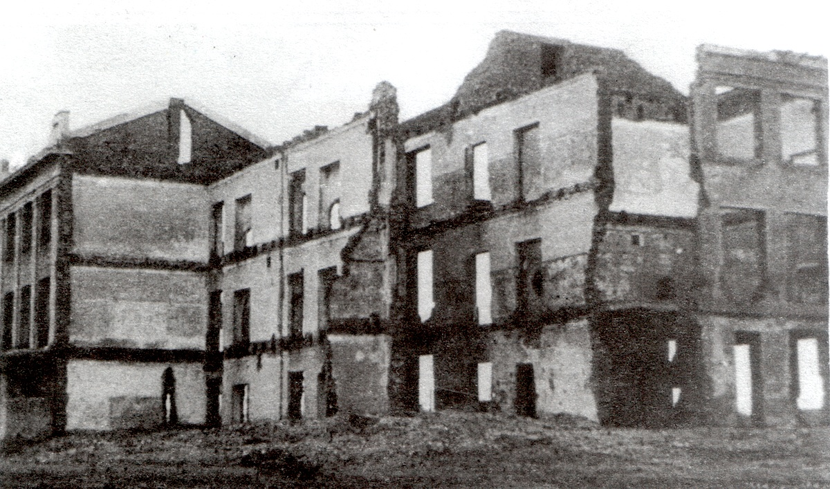 The Taganrog School no.27 blown up by the Germans before the retreat in 1943.